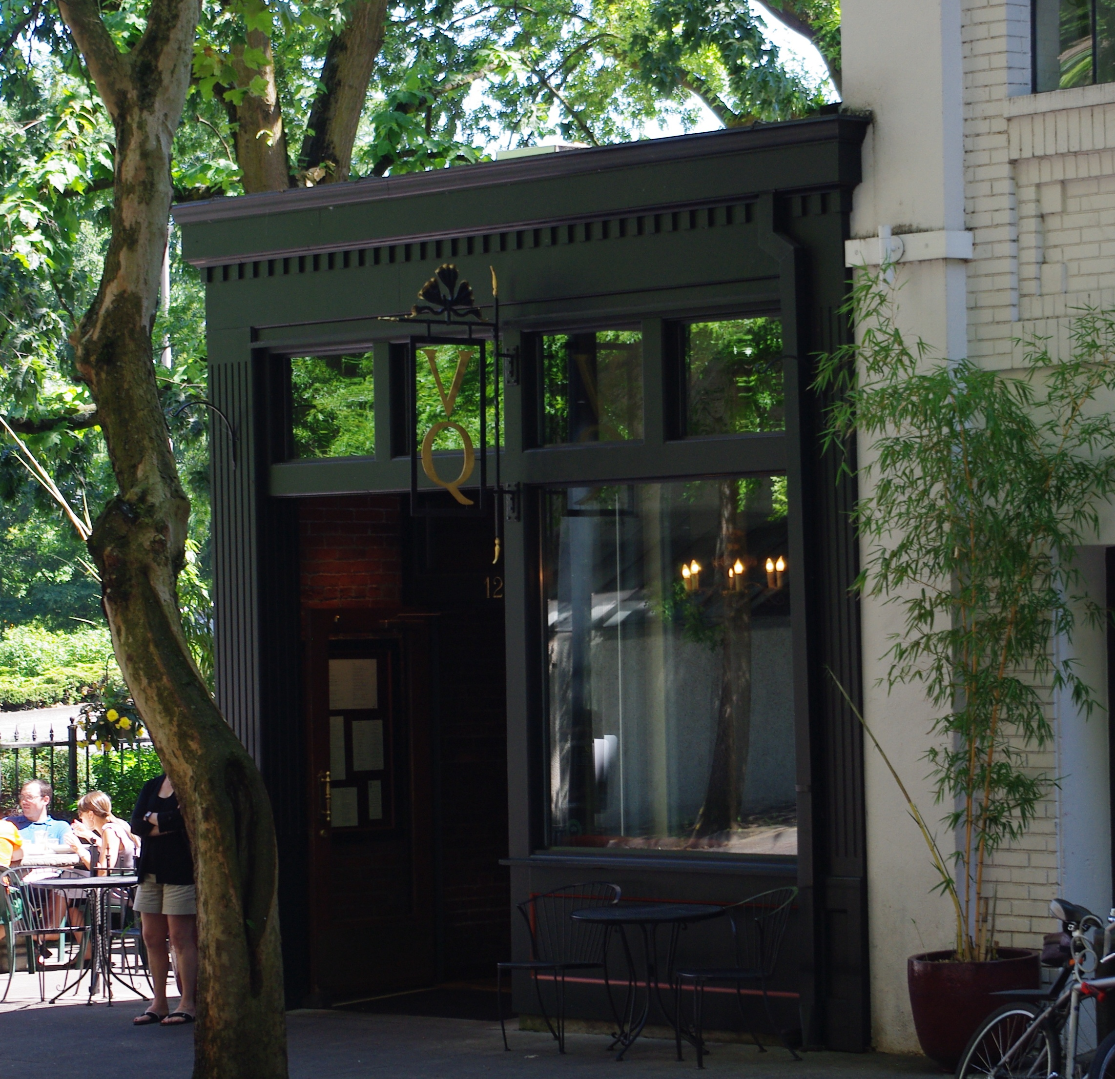 Veritable Quandary (VQ) in Dowtown Portland.